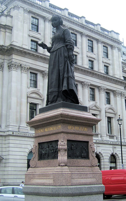 Statue to Florence Nightingale, Waterloo Place, London W1 This is a bronze statue on a pedestal of red granite on a grey granite base. The famous 'Lady of the Lamp' (1820-1910) is shown in her nurse's uniform carrying her lamp. The sculptor was Arthur Walker.